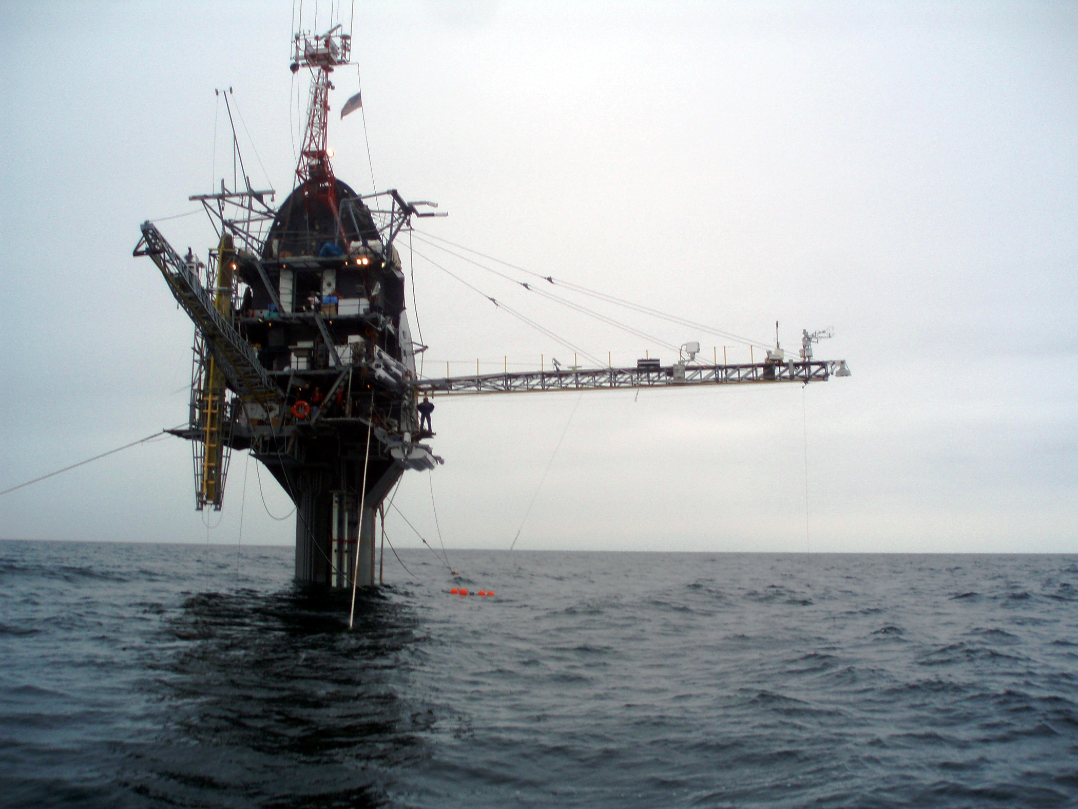 The Office of Naval Research R/P FLIP (Floating Instrument Platform) takes part in the second Radiance in a Dynamic Ocean (RaDyO) program, an at-sea research experiment. Twenty-five researchers from the US, Canada, Poland and Australia participated in the RaDyO experiment. Results from this project are expected to enhance our knowledge of imaging through the air-sea interface and through-the-surface optical communications.